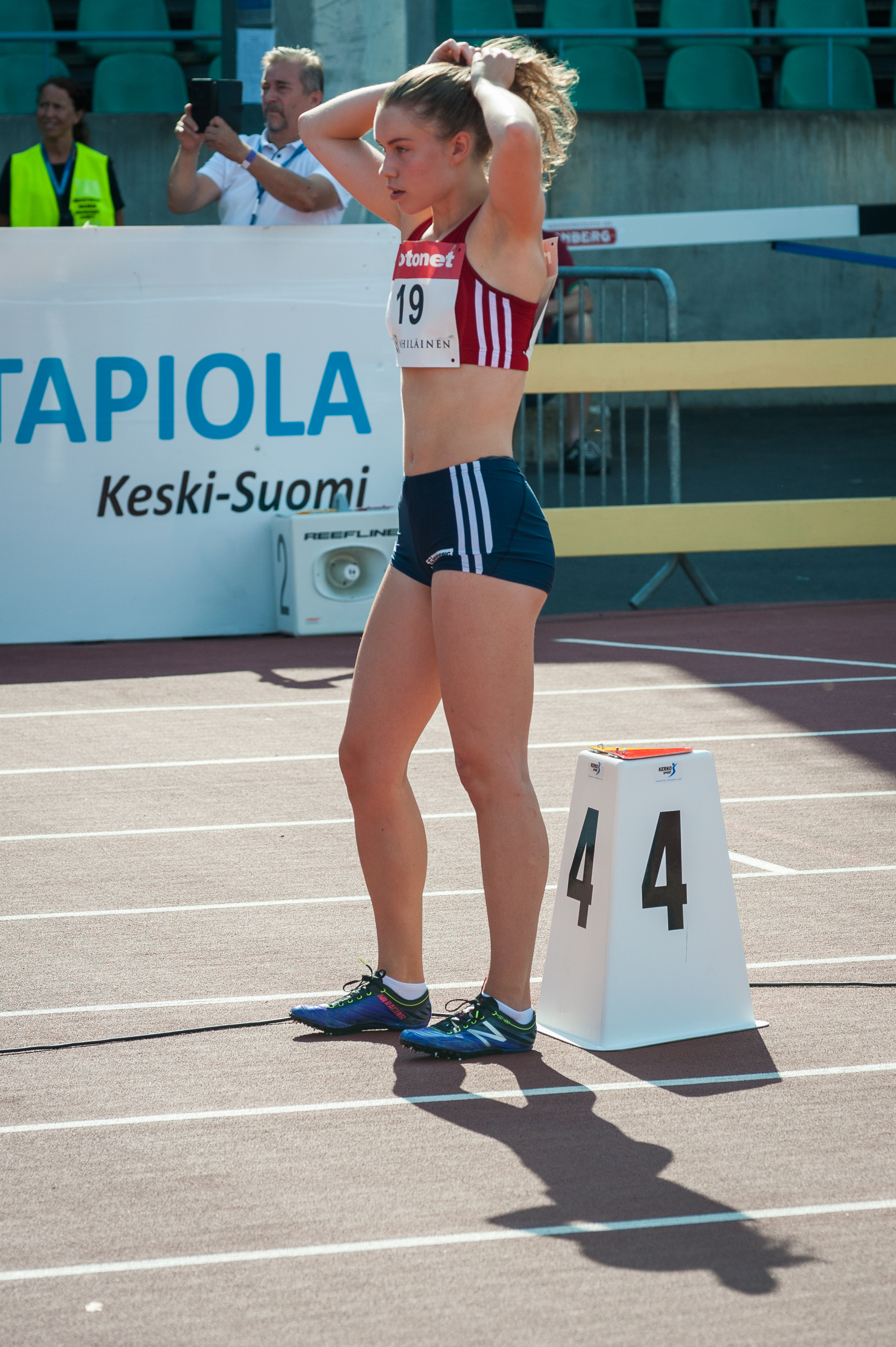 Women's 400 m hurdles competition at the 2018 Kalevan Kisat, the Finnish championships in athletics, in Jyväskylä, Finland.